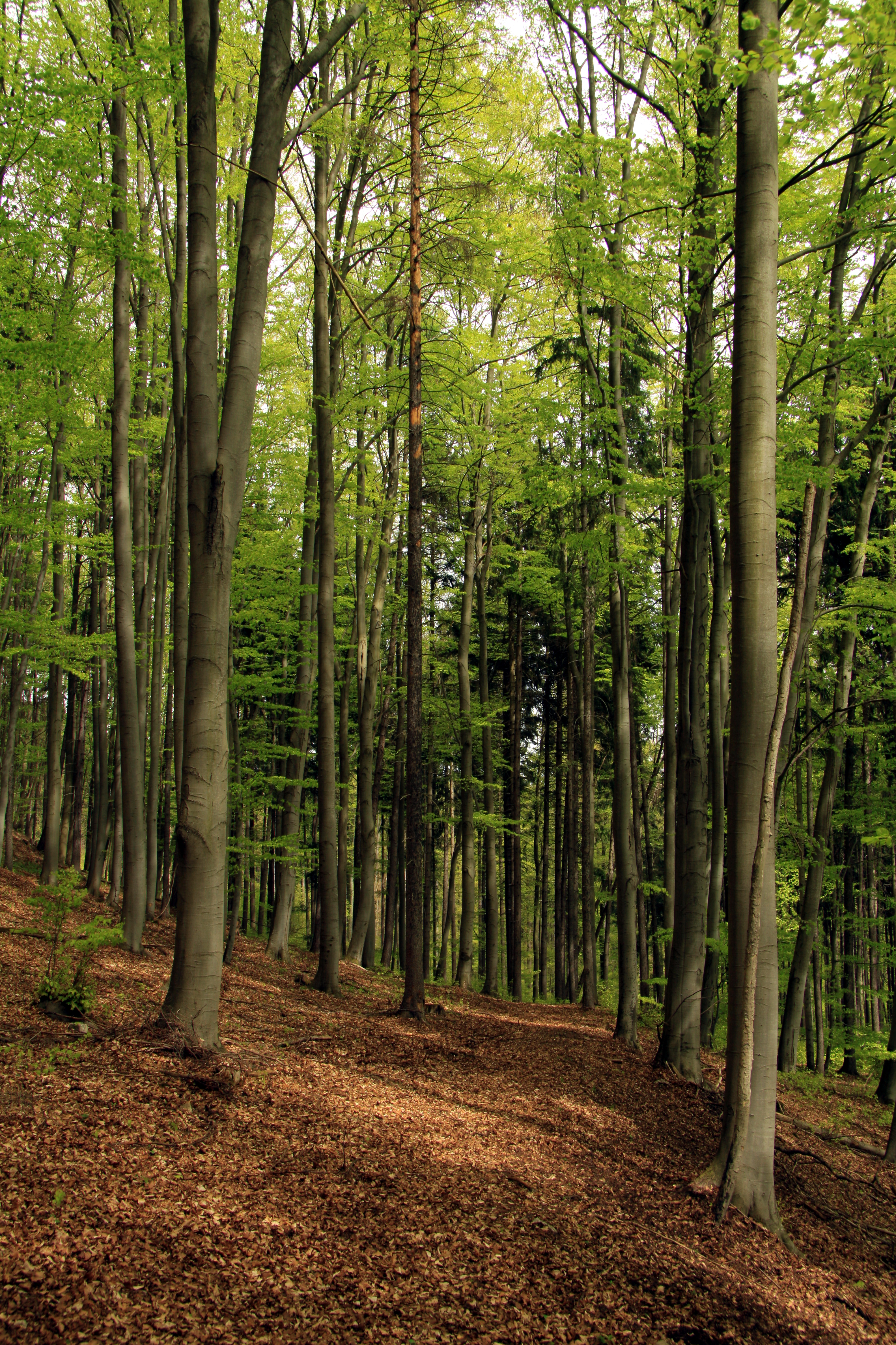 Nature reserve Čepičná southern from Budětice village in Klatovy District, Czech Republic Project: Chráněná území.